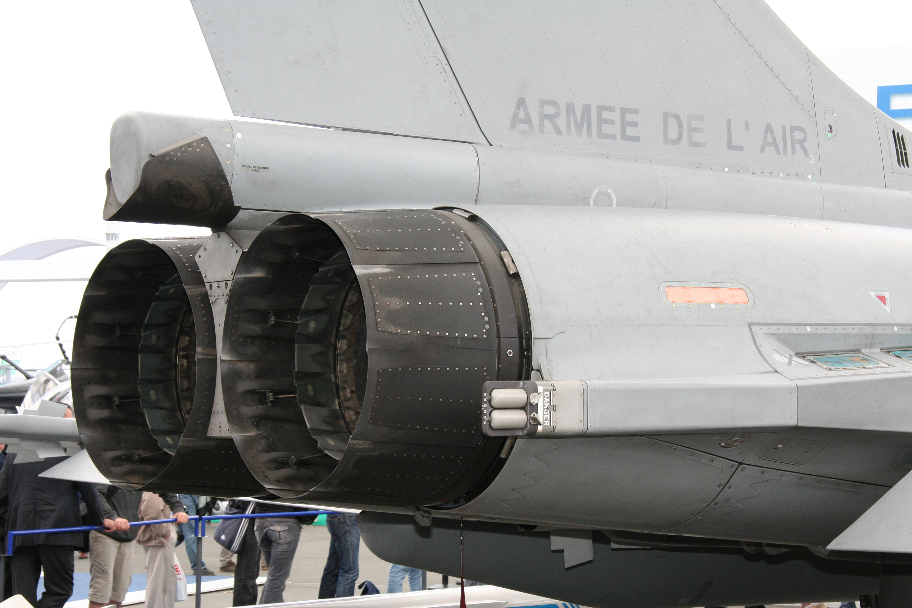 Dassault Rafale - Paris Air Show 2009